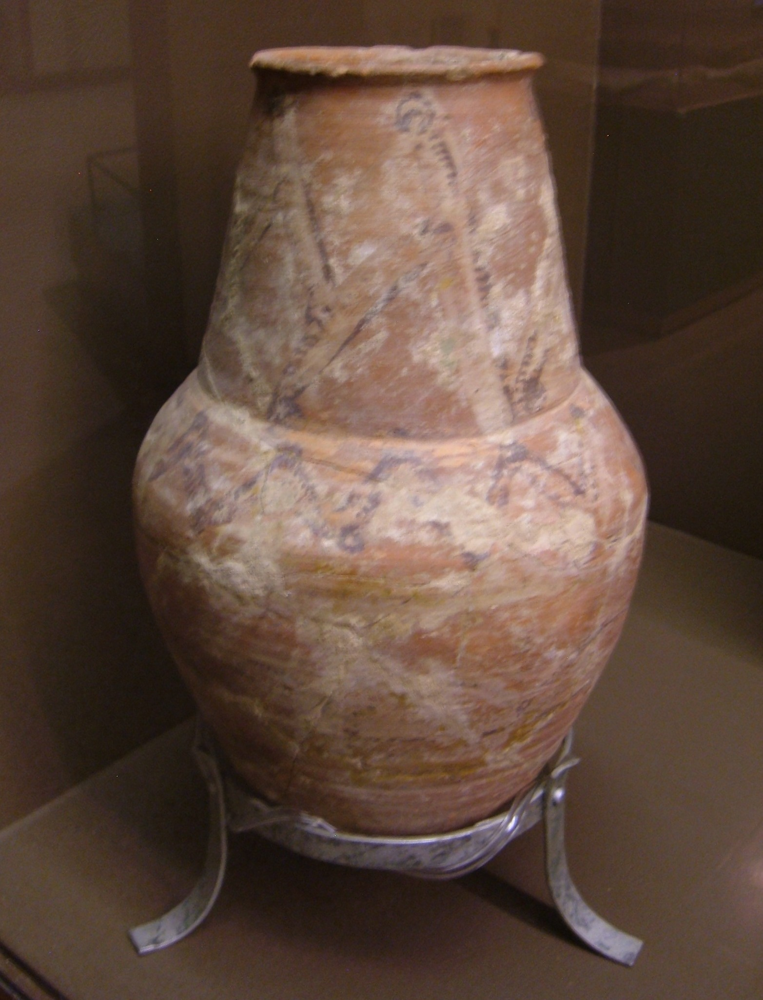 Ceramic wine jar (Dynasty 19) on display at the Rosicrucian Egyptian Museum in San Jose, California. RC 824